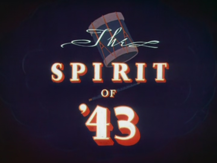 Caption from the film The Spirit of '43, which was created by Disney for the US Government